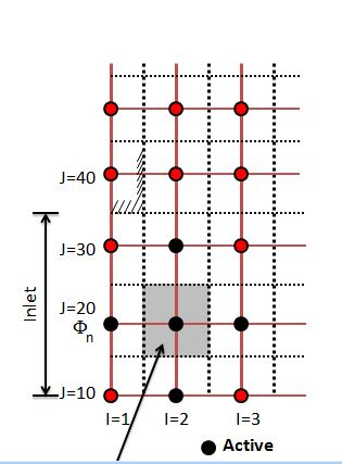 scalar cell at intake boundary